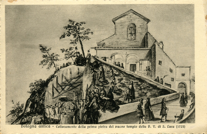 Laying of the first stone of the new sanctuary dedicated to the Holy Virgin of Saint Luke (Bologna, 1723). In the background, it is visible the earlier building.